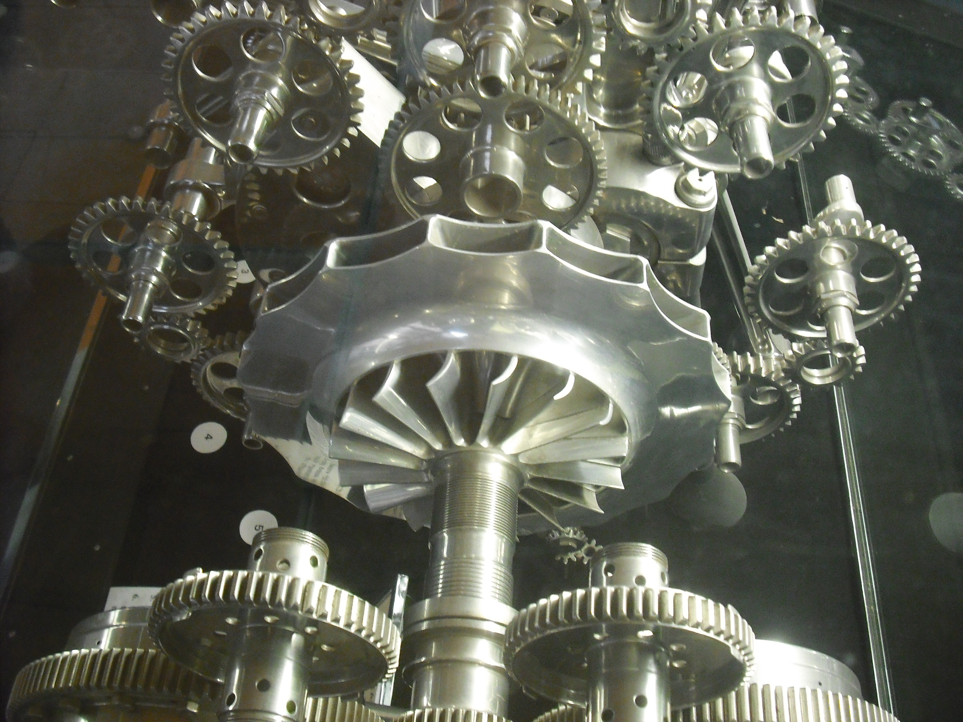 Centrifugal supercharger of a Bristol Centaurus radial aircraft engine. Above this are the drive gears for the sleeve valves of the rear cylinder bank. Photographed at the Bristol City Museum exhibition, "Flight: 100 years of the Bristol Aeroplane Company".